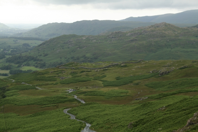 Hard Knott Roman Fort and Eskdale. Looking down from Hard Knott pass.